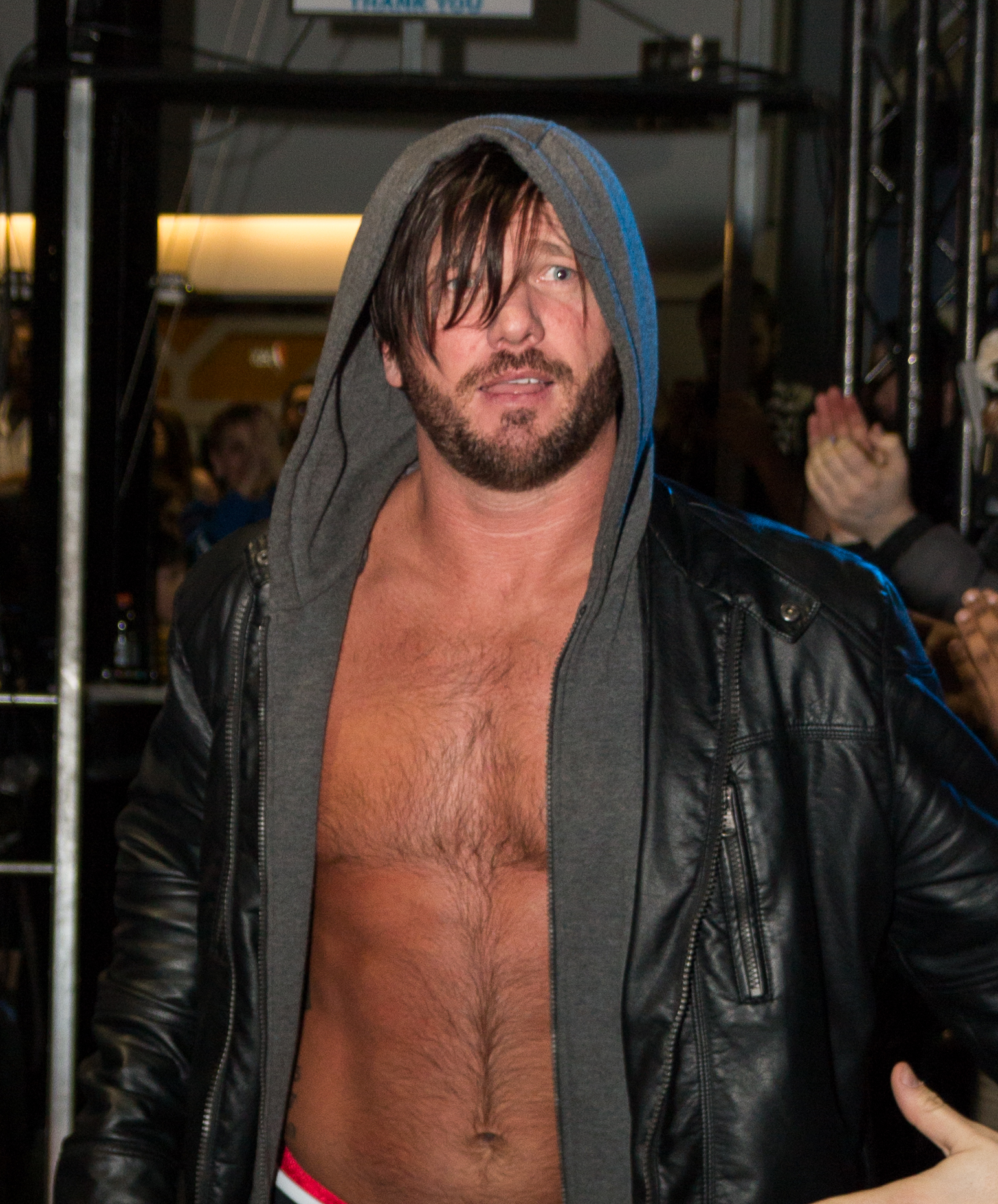 AJ Styles making his ring entrance at a Smash Wrestling show at Etobicoke, ON